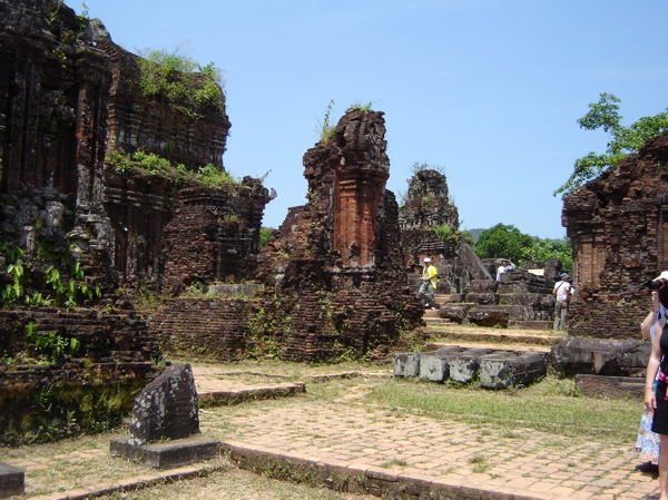 Remnants of Cham Kingdom at My Son